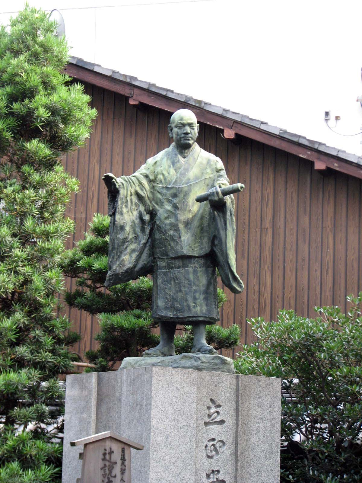 A statue of Nichiren outside Honnoji temple on Teramachi.